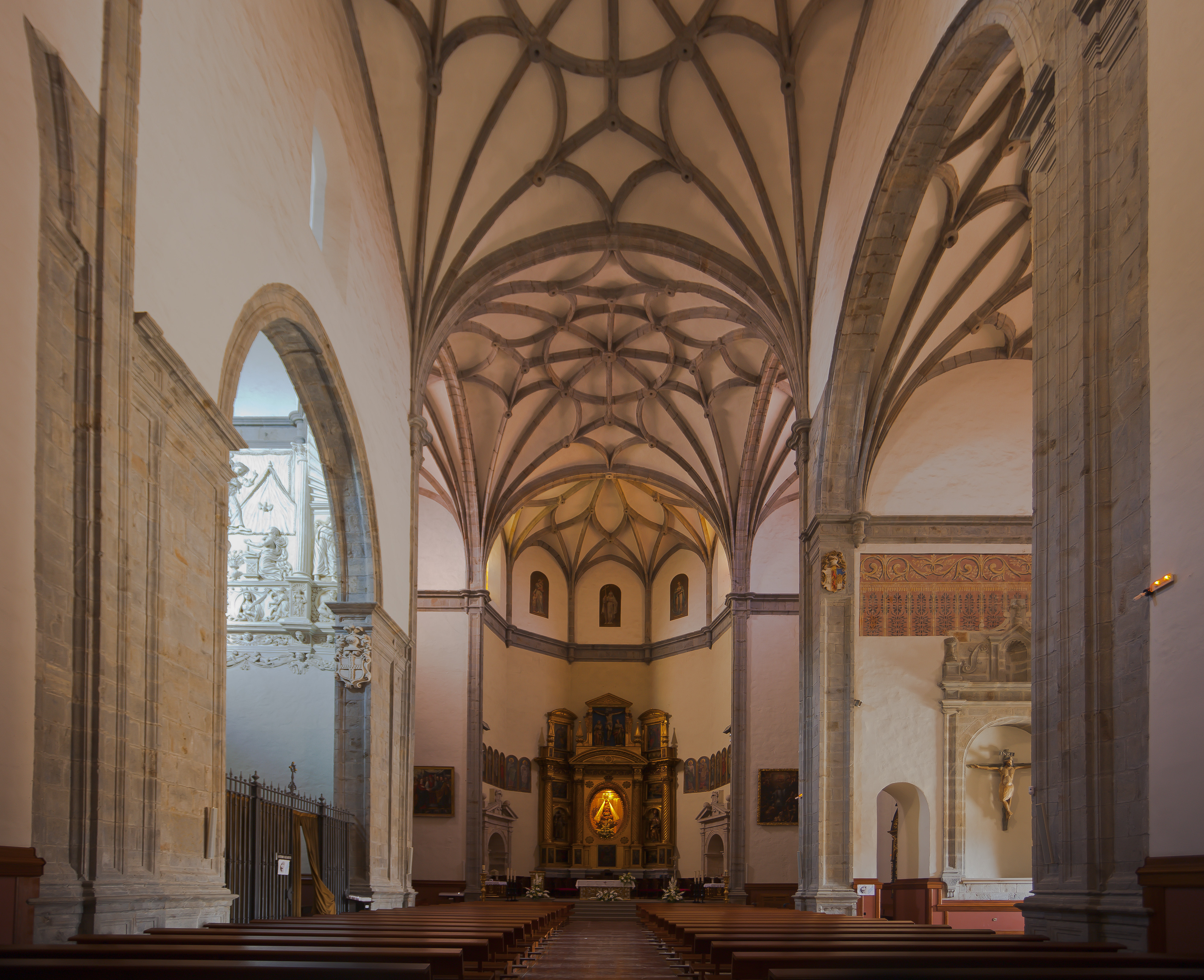 Basilica of Nuestra Señora de los Milagros, Ágreda, Spain